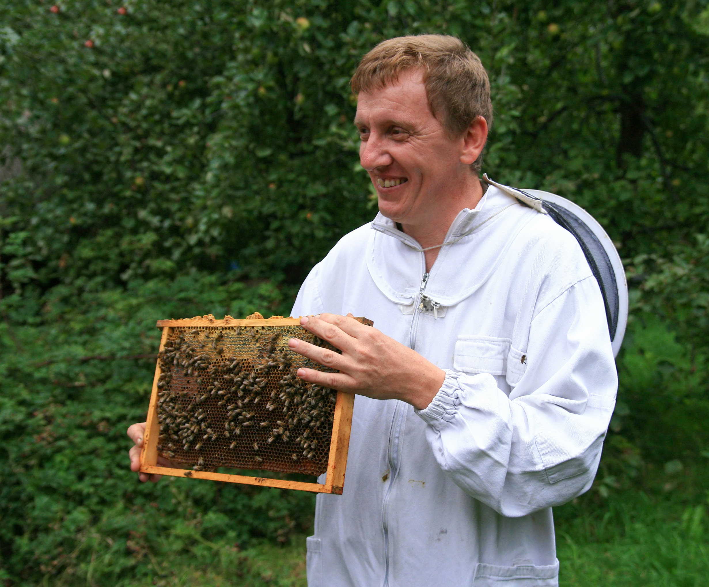 Beekeeper Paweł Kowalczyk in Upper Silesian Ethnographic Park.